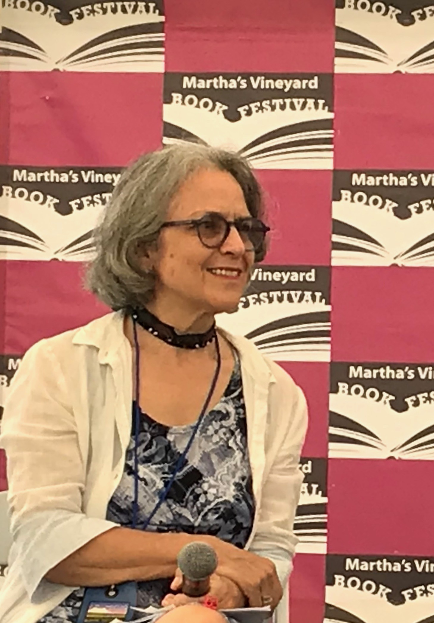 American Author Elizabeth Benedict Speaking at the 2019 Martha's Vineyard Book Festival